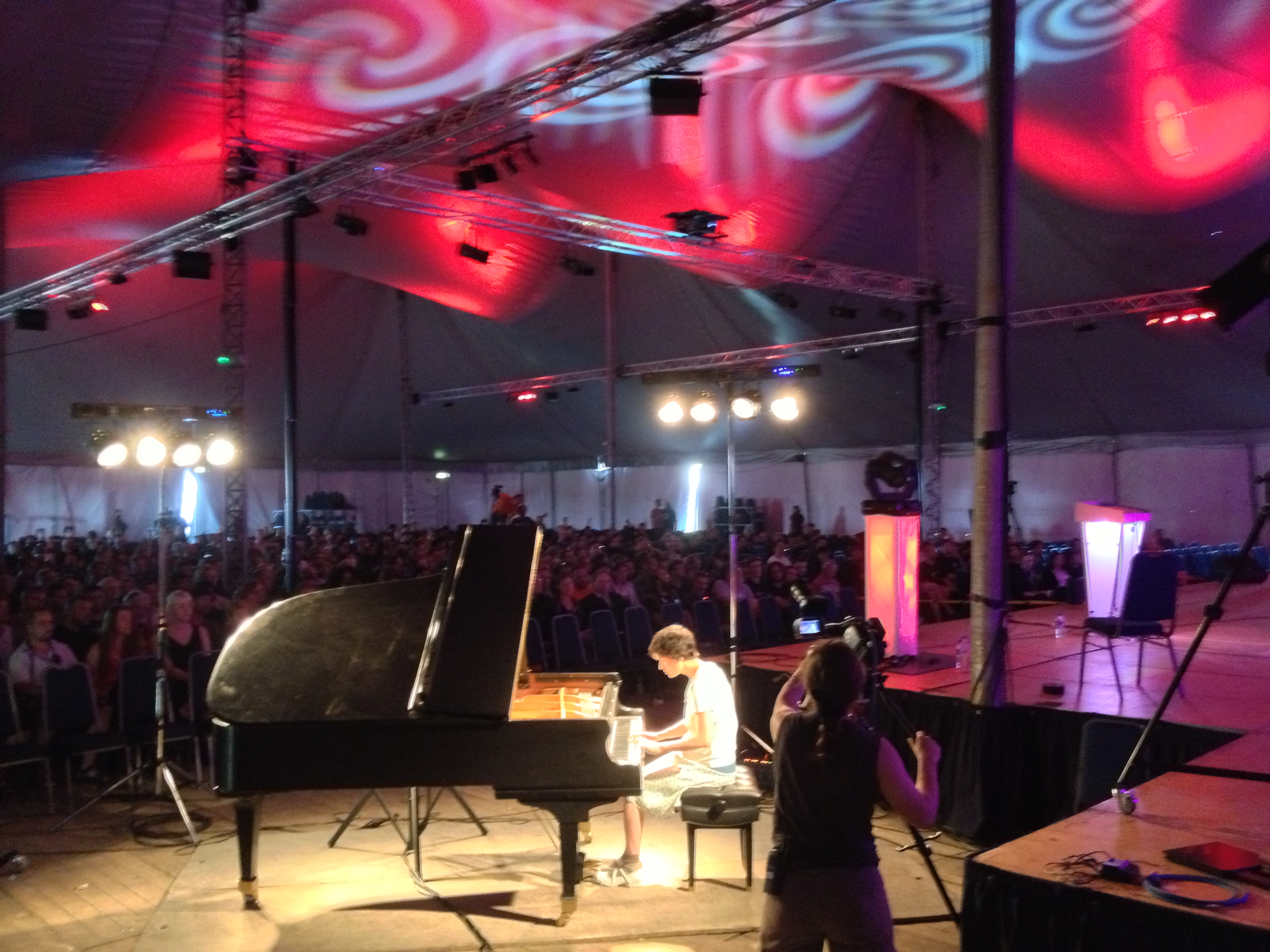 Kimiko Ishizaka performing at the O.H.M. festival in Holland, 2013.